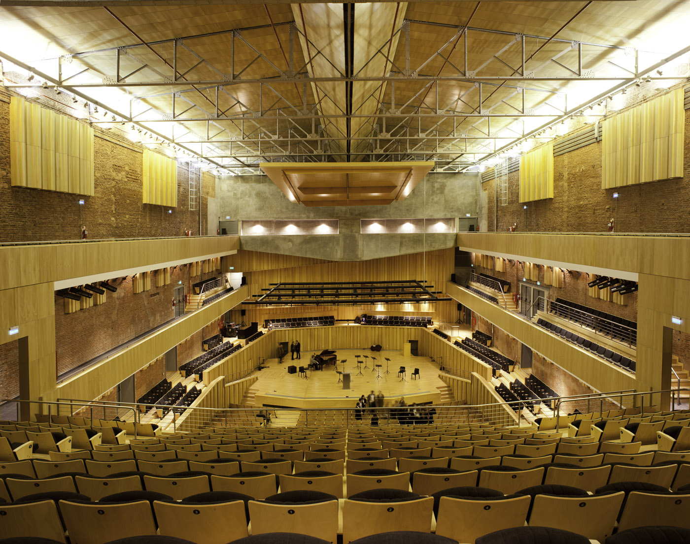 Auditorium in the Arts Powerhouse (Usina de las Artes), located in La Boca, Buenos Aires.